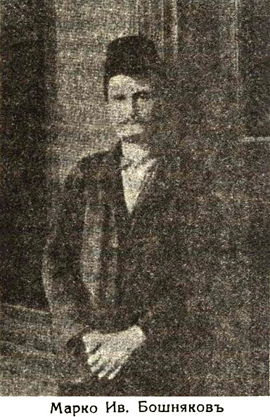 Portrait of Marko Boshnakov, member of IMARO and the terrorist group of the "Gemedjias", who blow up Thessaloniki in 1903.